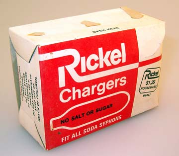 Chargers package from Rickel circa mid 1980's.